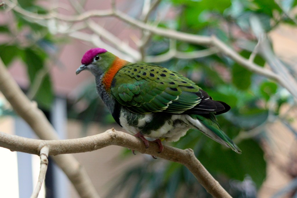 A male Superb Fruit Dove (also known as the Purple-crowned Fruit Dove) at London Zoo, England.